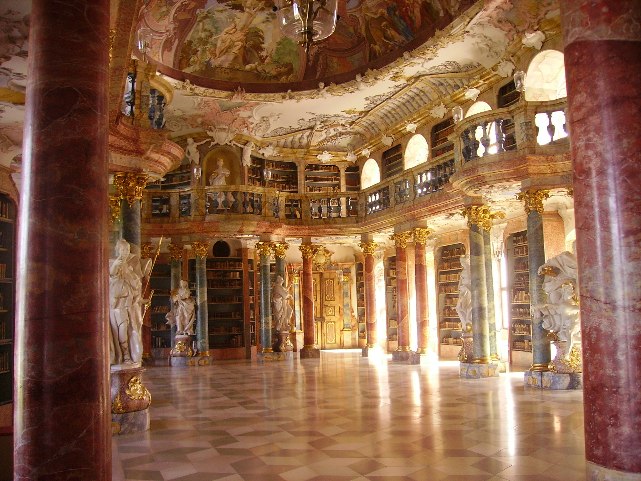 Wiblingen Monastic Library, Ulm